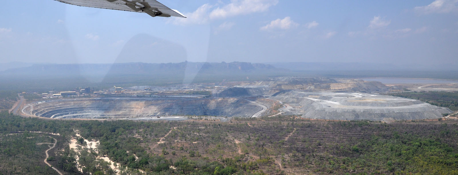 Aerial view of the Ranger Uranium Mine, Kakadu National Parken. Corrected version (cropped, brightness adjusted).